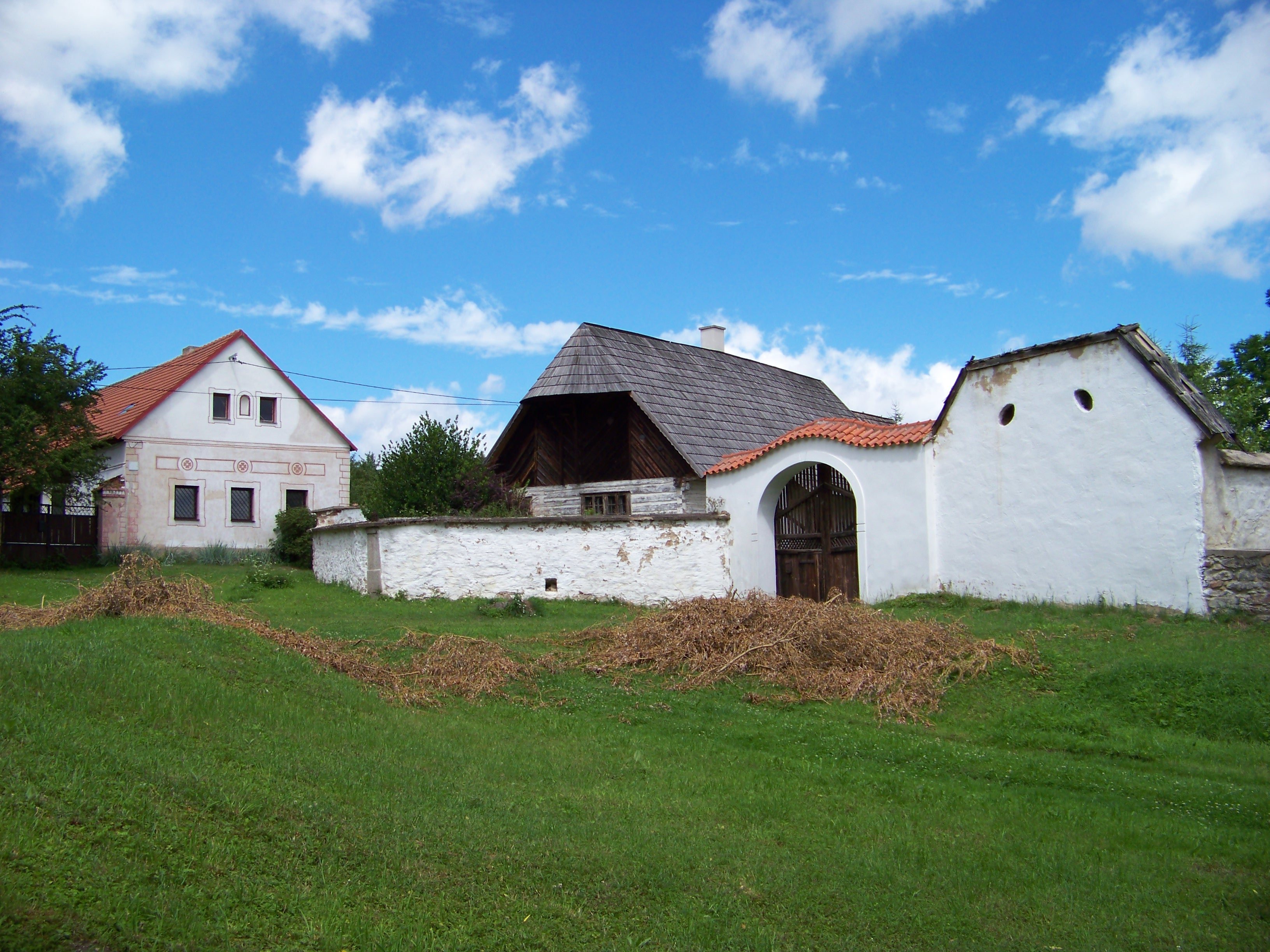 Radětice-Palivo, Příbram District, Central Bohemian Region, the Czech Republic. Houses No. 1 and 2.